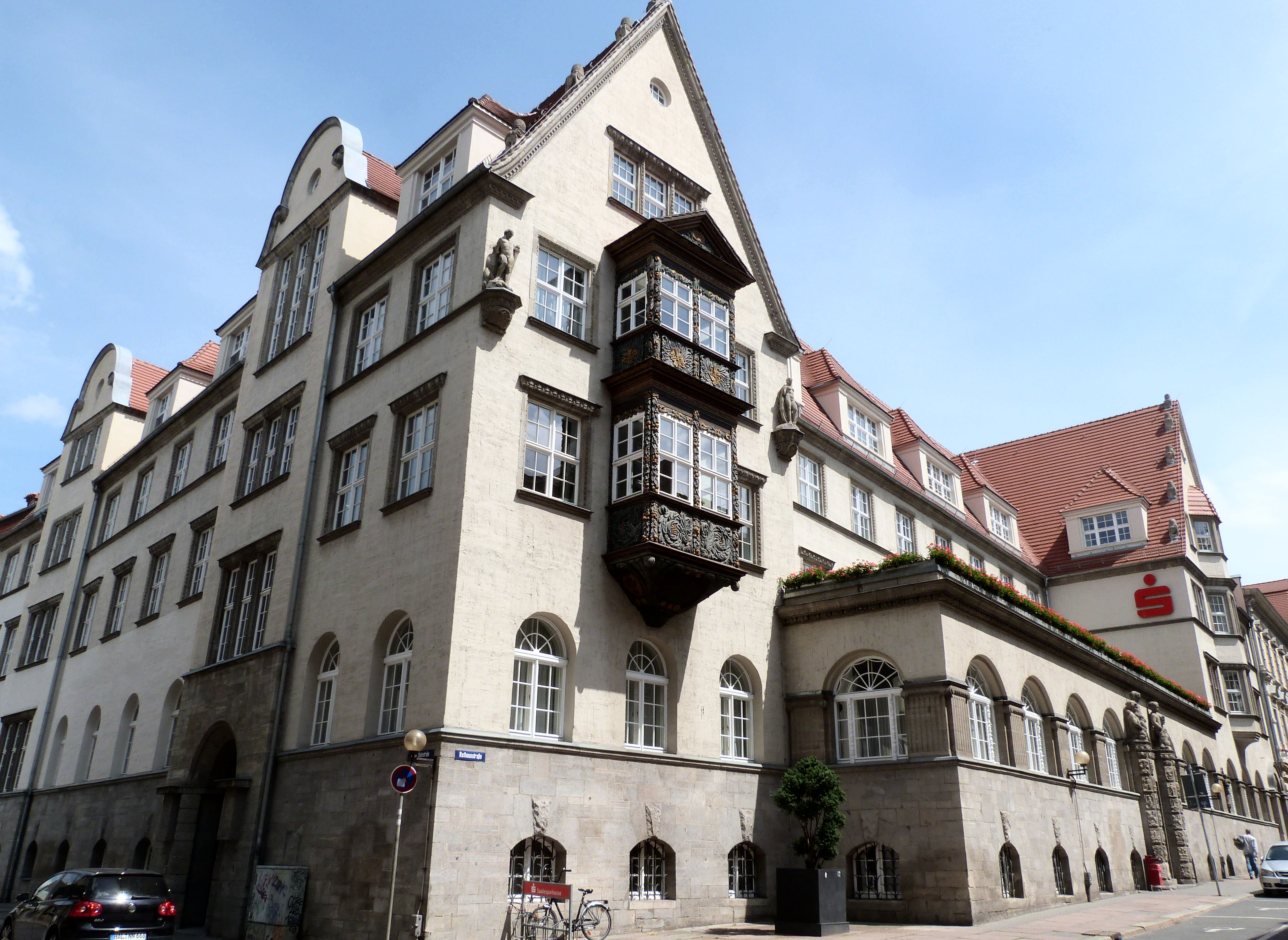 House No. 5/6 Rathausstrasse in Halle Saale), bank building from 1914/1915, architect: Wilhelm Jost